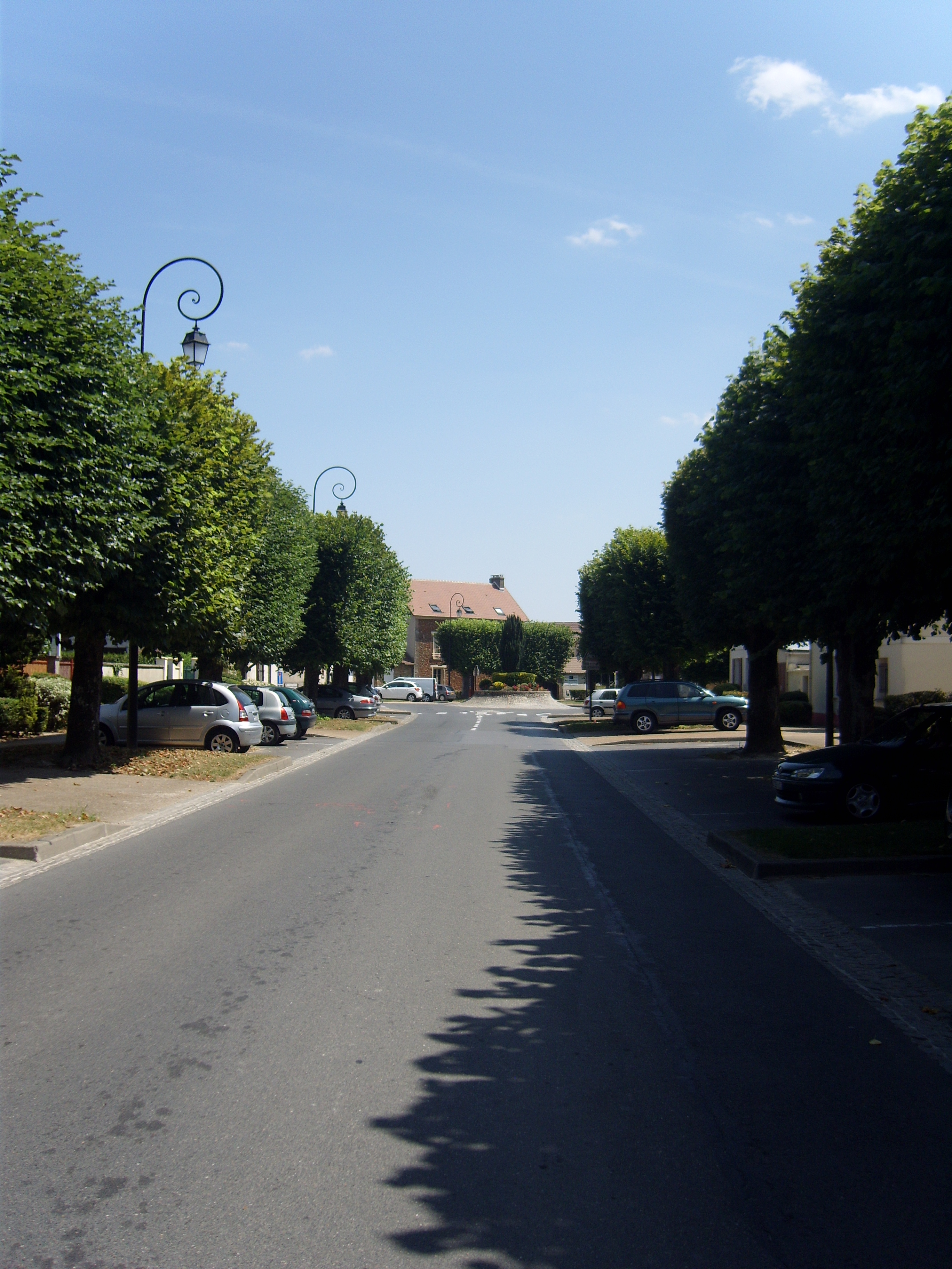 Étienne Hardy boulevard lined with linden trees